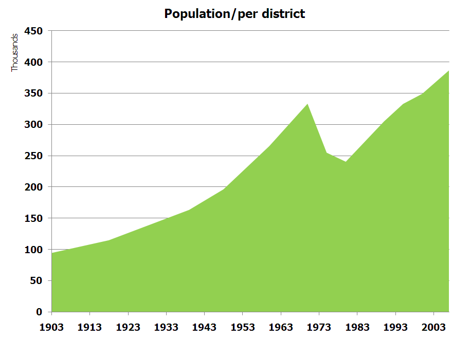 Population per district in the House of Representatives of the Philippines from the third Philippine Assembly to latest census.